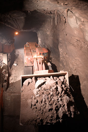 Work under surface at the Niobec Mine in Québec, Canada